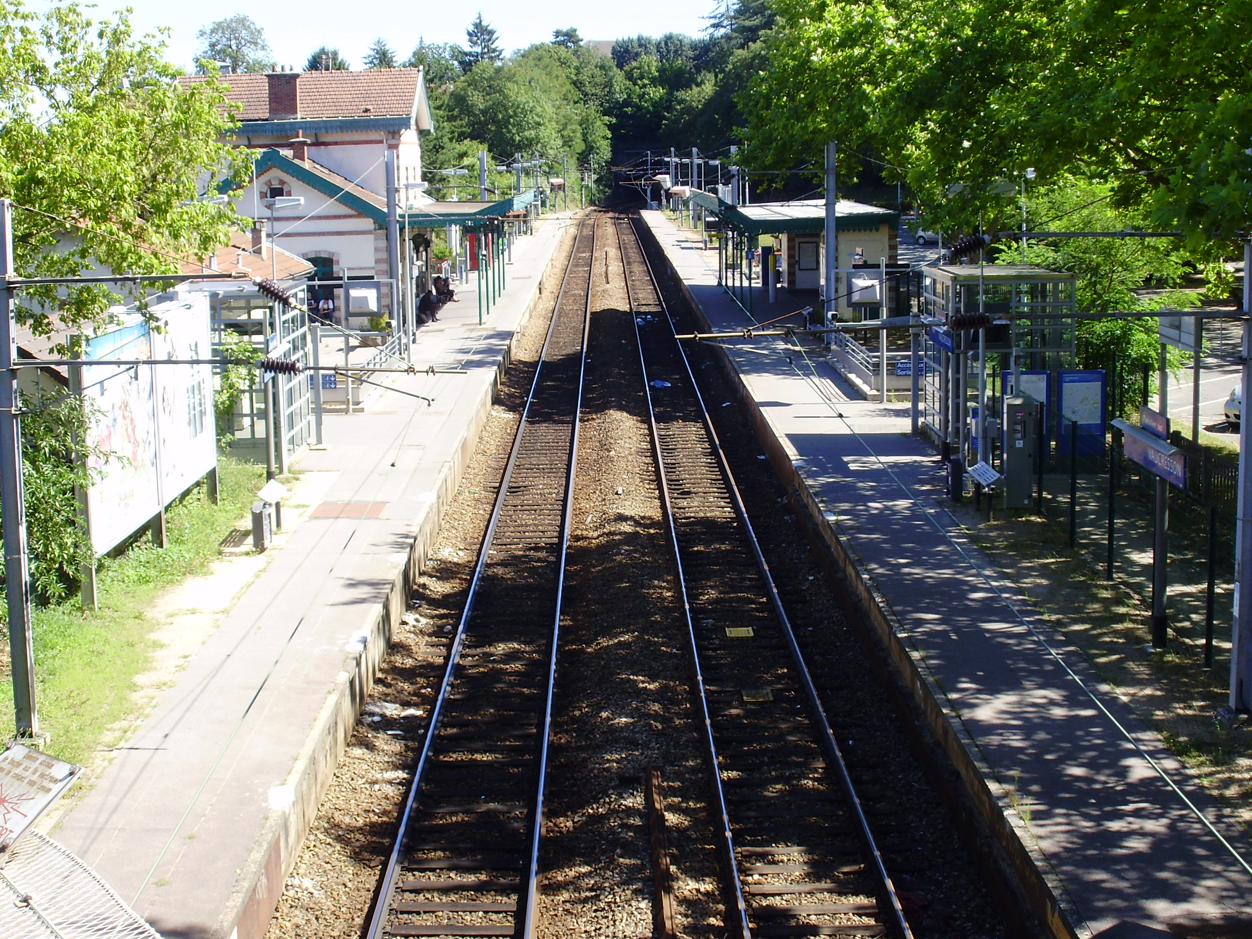 Vaucresson station, Hauts-de-Seine, France (general view of the platforms from the road bridge of the boulevard de la République [D 907 road])